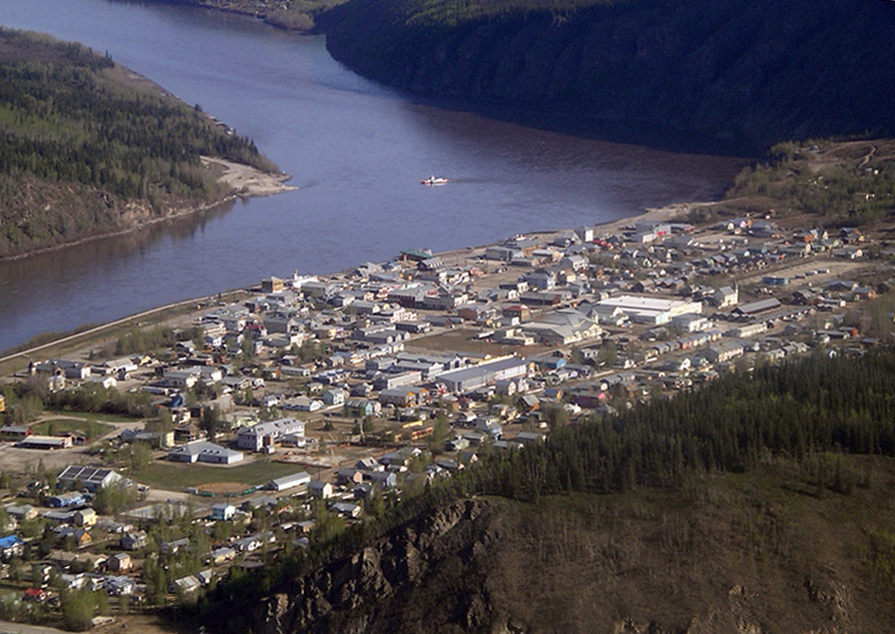 Aerial view of central Dawson City, Yukon, Canada.